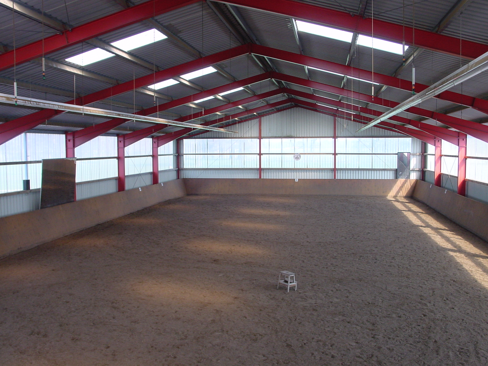 Riding hall (inside) in Altenhorst (Langenhagen), Germany